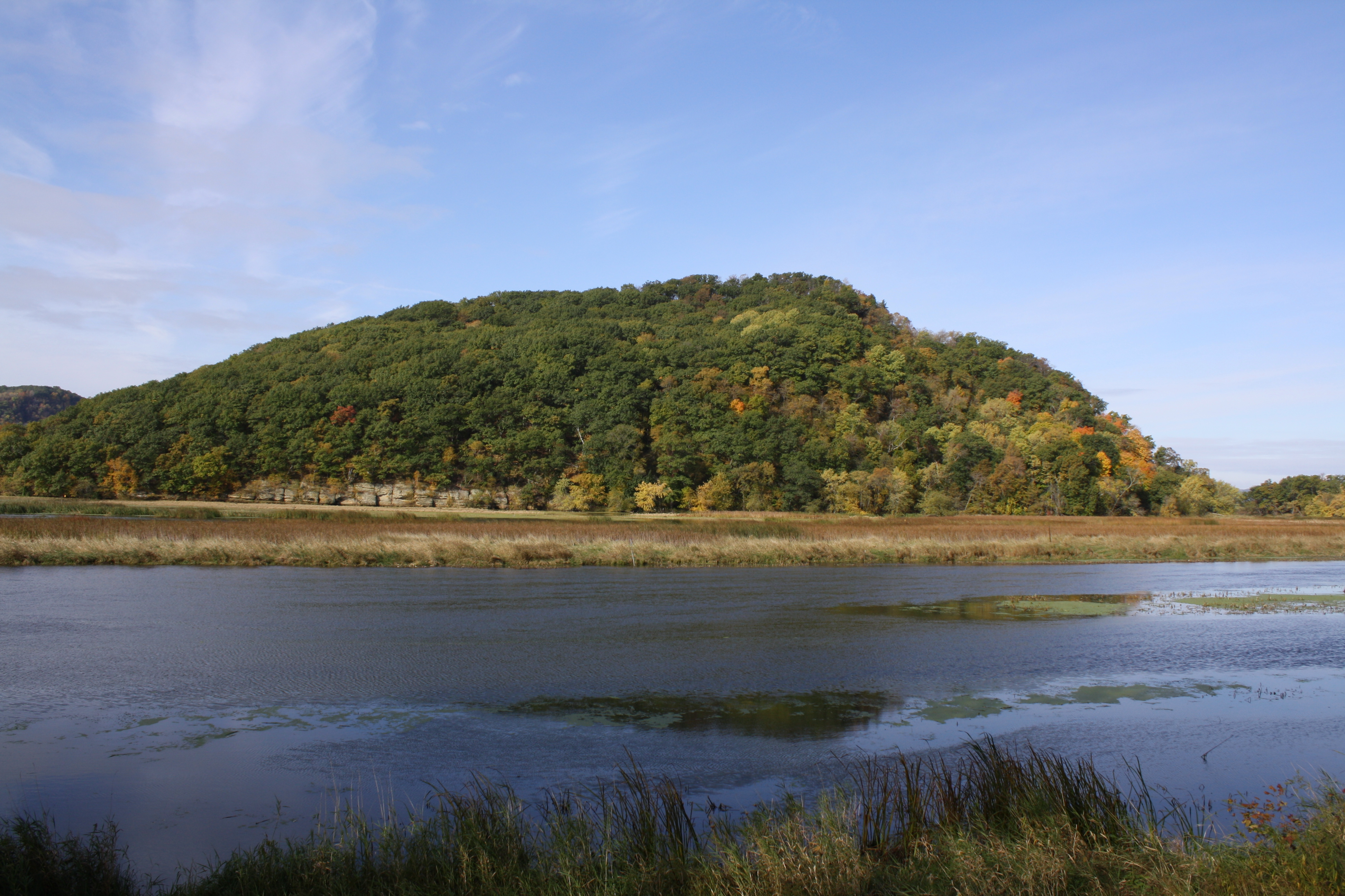 Looking west at Trempealeau Mountain at Perrot State Park. The Trempealeau River is visible in the foreground.